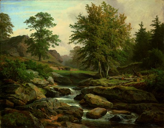 Motif from the Erkertal near Harzburg